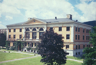 Murdock Hall, the first building of Massachusetts College of Liberal Arts. Named for Frank Murdock, an early president of the college.